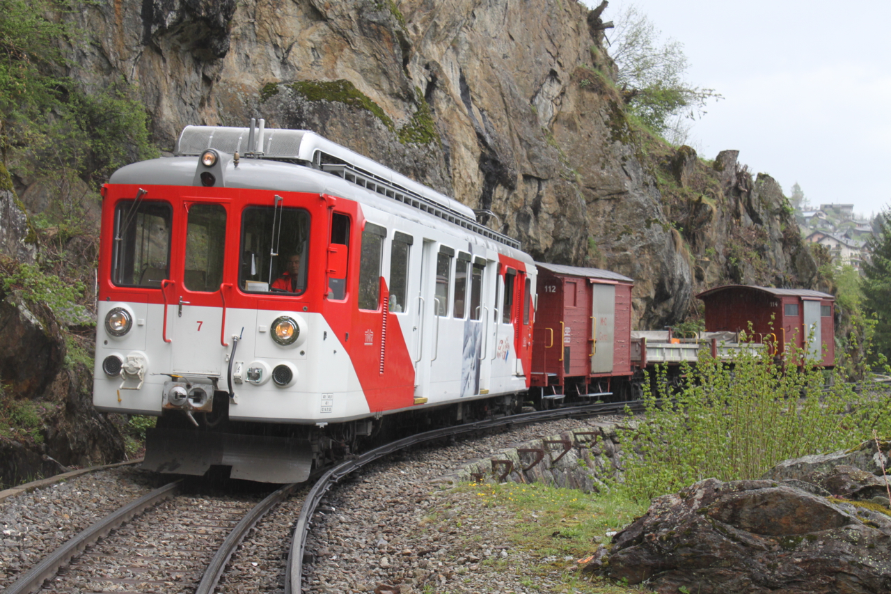 TMR BDeh 4/4 7 at Finhaut.